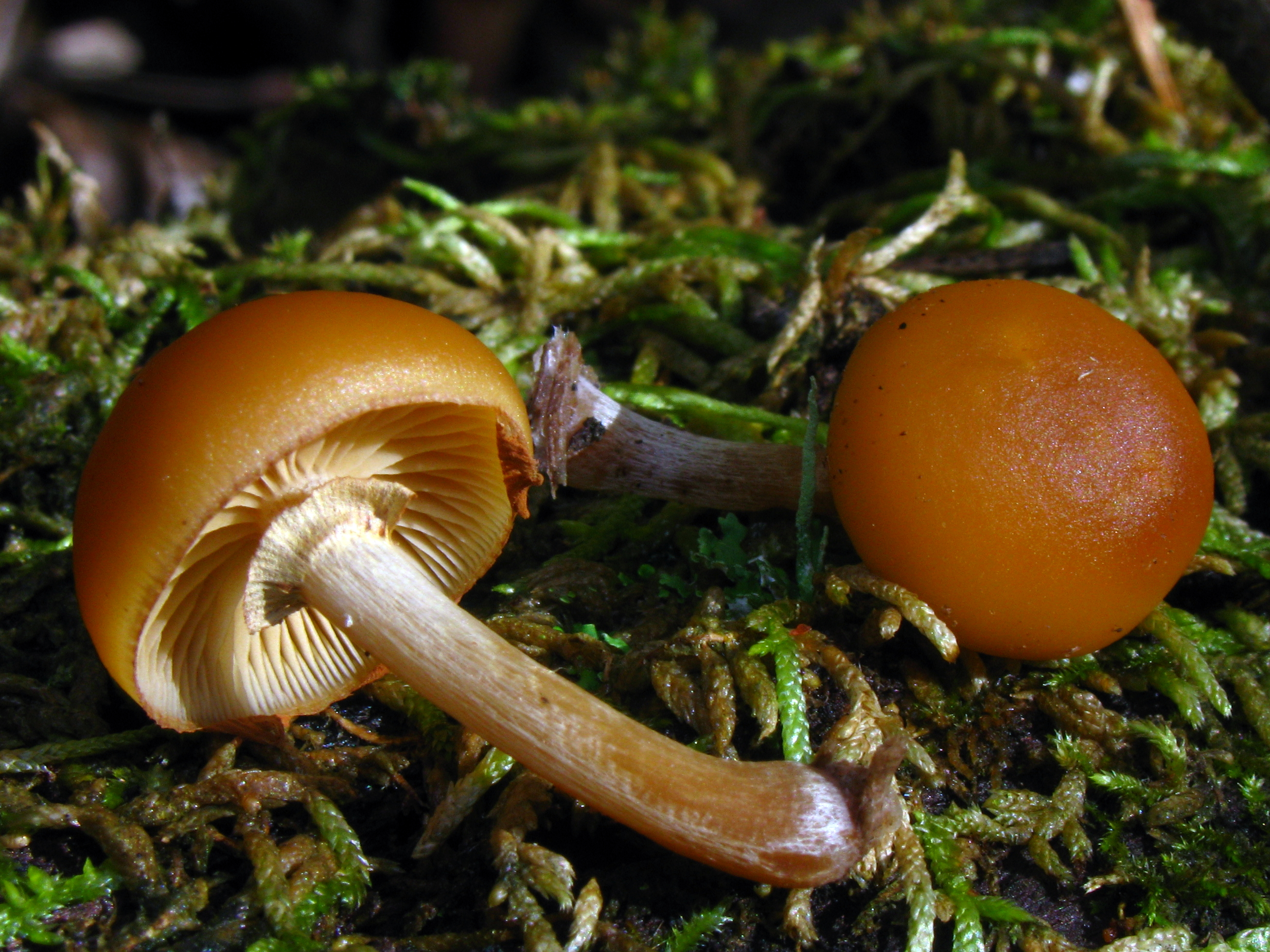 The toxic mushroom Galerina marginata (Batsch) Kühner. Originally identified as Galerina autumnalis (Peck) A.H. Sm. & Singer, the former is now known to be the preferred synonym. Specimens photographed in Strouds Run State Park, Athens, Ohio, USA.